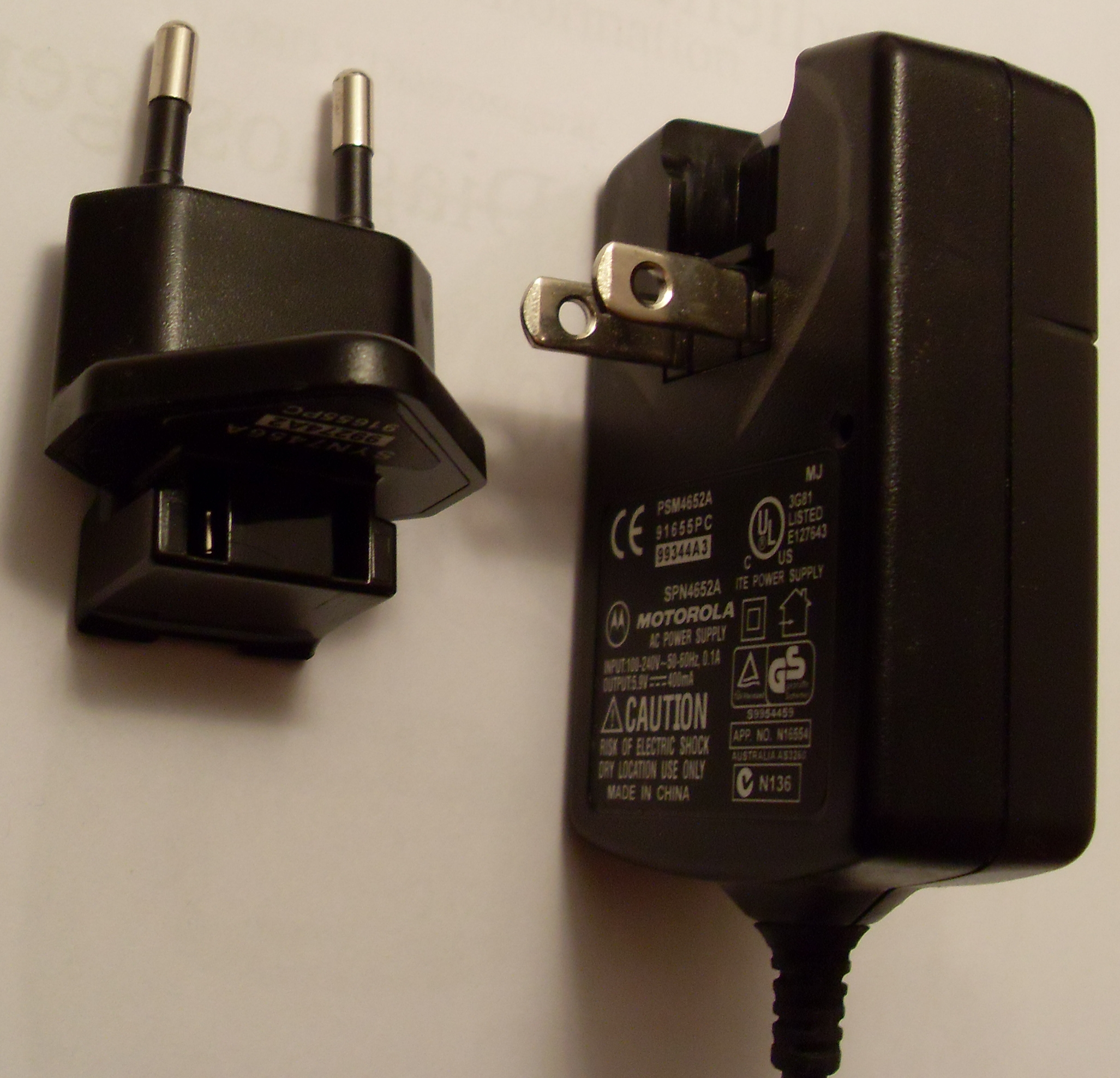 Charger Motorola Timeport for European and US power connectors